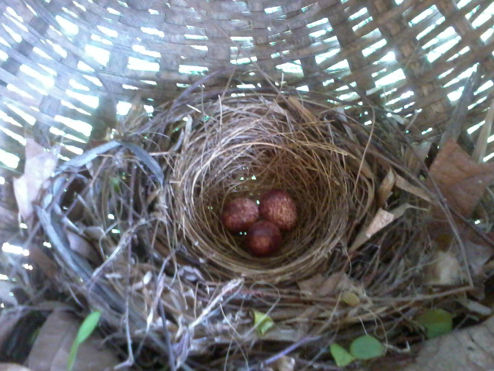 A nest of a Red-vented Bulbul(Pycnonotus cafer) with 3 eggs at Praikkara, Mavelikara, in Alappuzha District of Kerala.